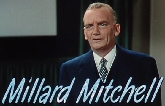 Cropped screenshot of Millard Mitchell from the trailer for the film Singin' in the Rain.